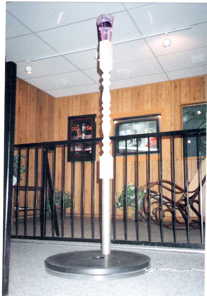 Photo of a Shock Evader on the earthquake simulating platform at the California Museum of Science and Industry, Los Angeles which is shaking in a regime of real earthquake. Nevertheless, the steel pipe, wooden post, and jumbo glass of water, all stocked upon top of each other, are staying still.